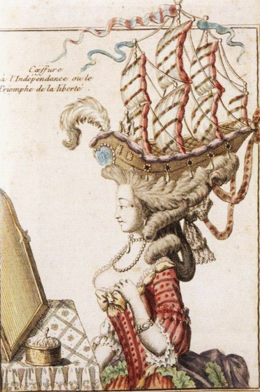 Exaggerated satircal caricature of ca. 1780 "big hair" themed hairstyle, with objects placed in the hair to make a statement. For a more realistic view, see File:Coiffure Belle-Poule 2A.jpg.